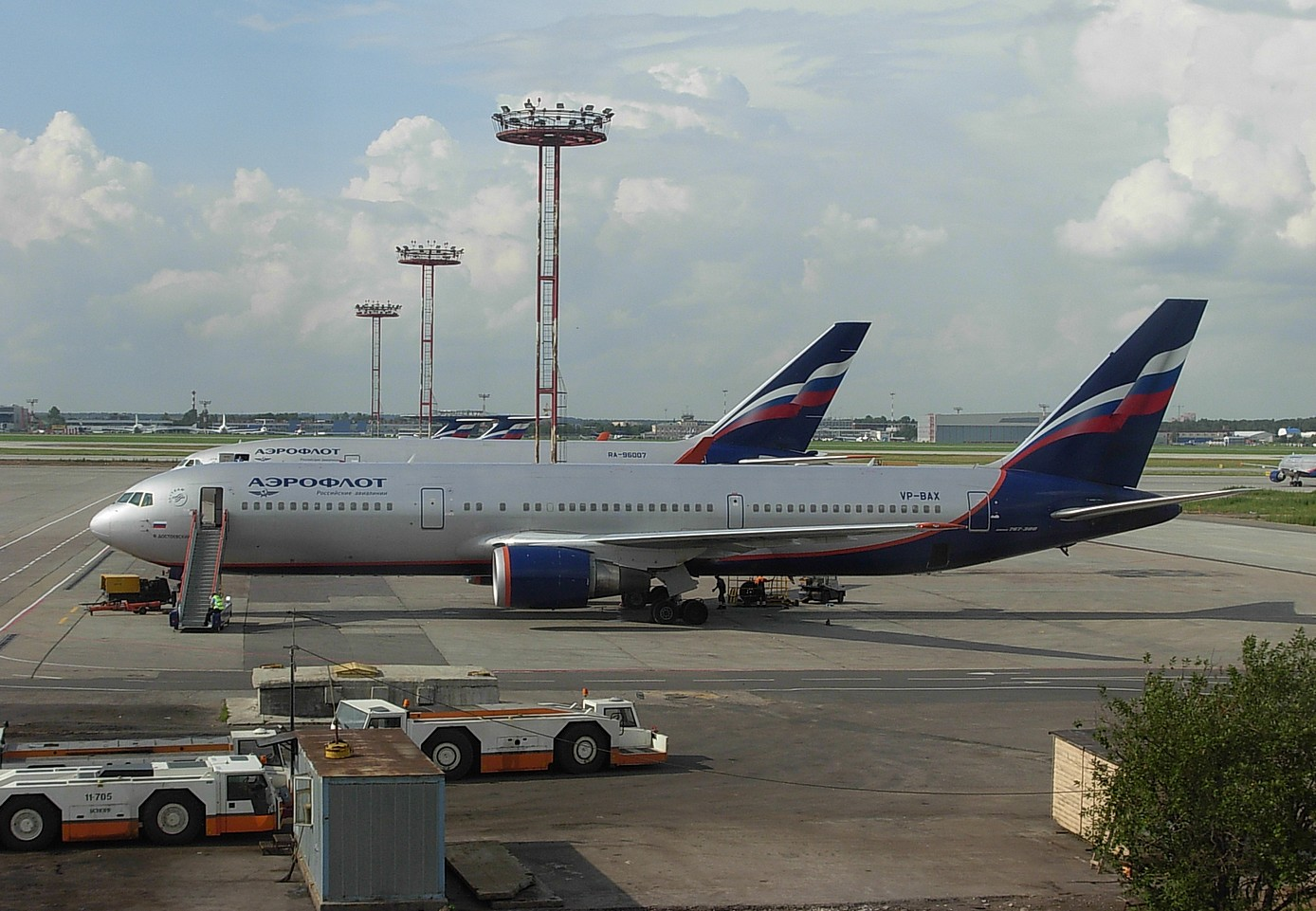 Aeroflot's B767-300 VP-BAX near the Moscow Sheremetevo-2 terminal